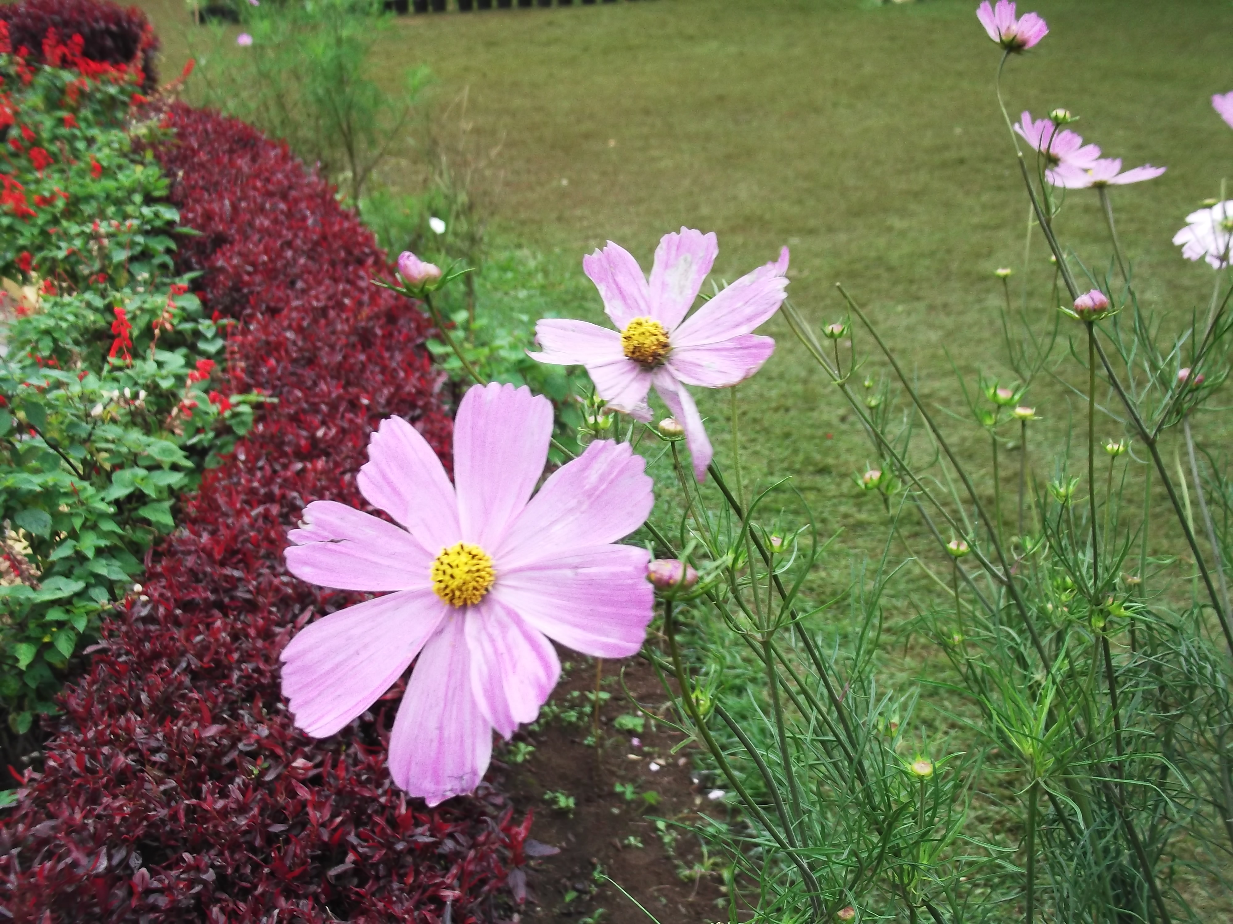 Leaves finely cut into lacy segments,flowers white,pink,rose with yellow center.